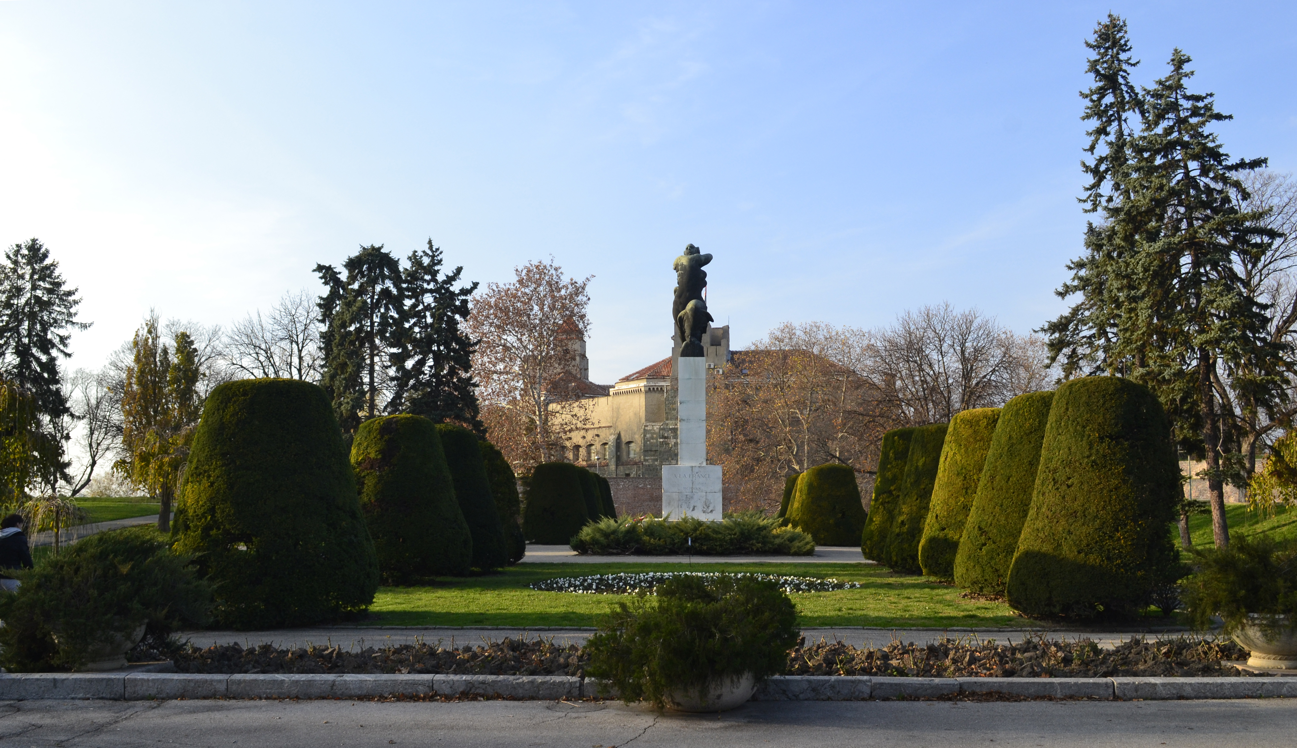 Monument of Gratitude to France at Kalemegdan, Belgrade, Serbia